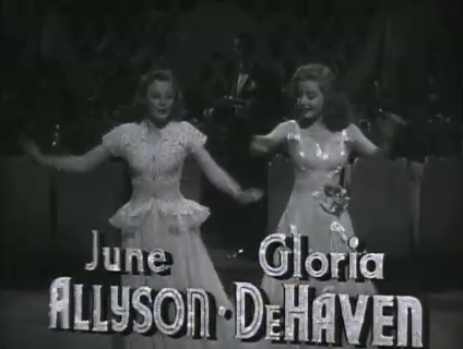 June Allyson and Gloria DeHaven in Two Girls and a Sailor, by Richard Thorpe (1944)